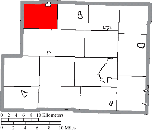 Map of the municipal and township boundaries of Harrison County, Ohio, United States, as of the 2000 census, with the location of Monroe Township highlighted. Township borders are shown only in unincorporated areas in order to differentiate incorporated and unincorporated areas more clearly.